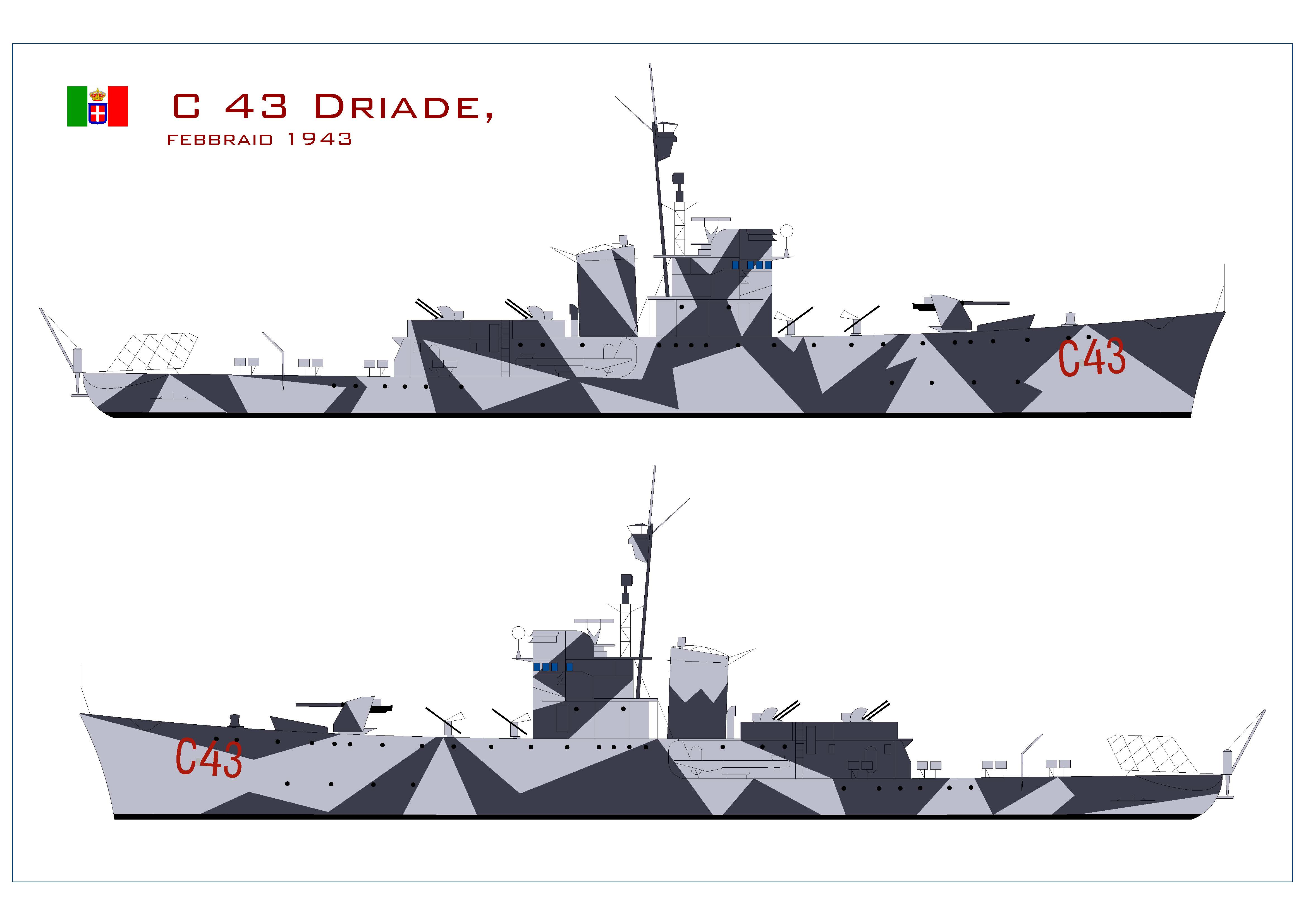 C 43 Driade